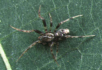 male Cyclosa confusa from Okinawa.